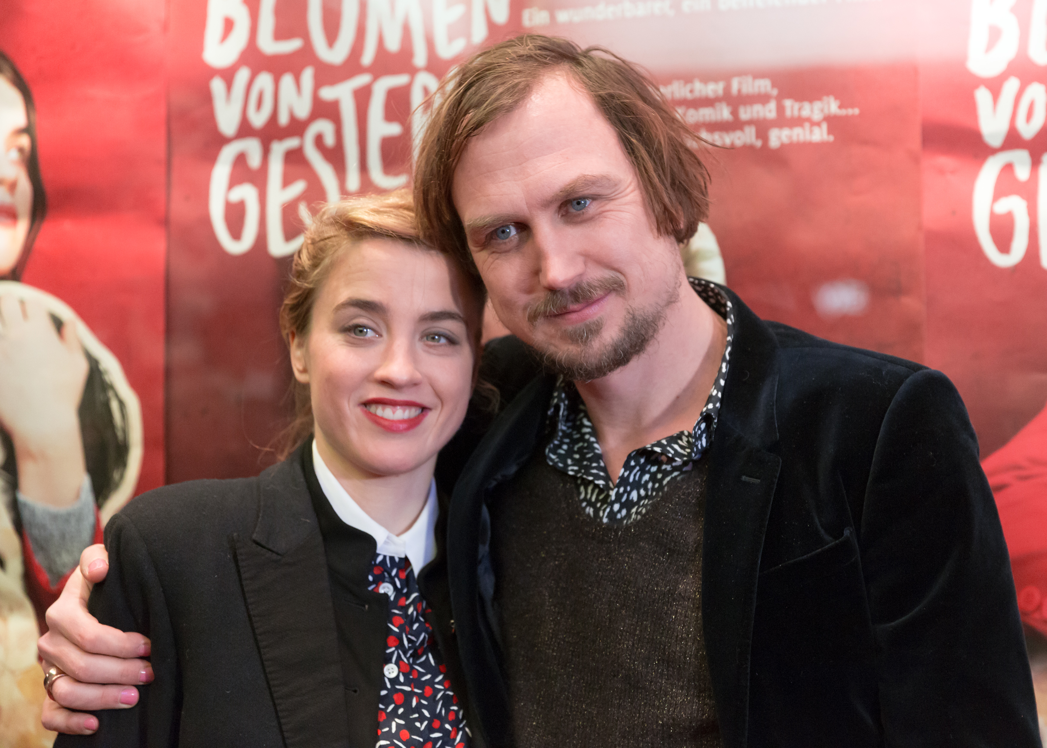 Adèle Haenel and Lars Eidinger at the Austrian premiere of Die Blumen von gestern at Gartenbaukino, Vienna, Austria.